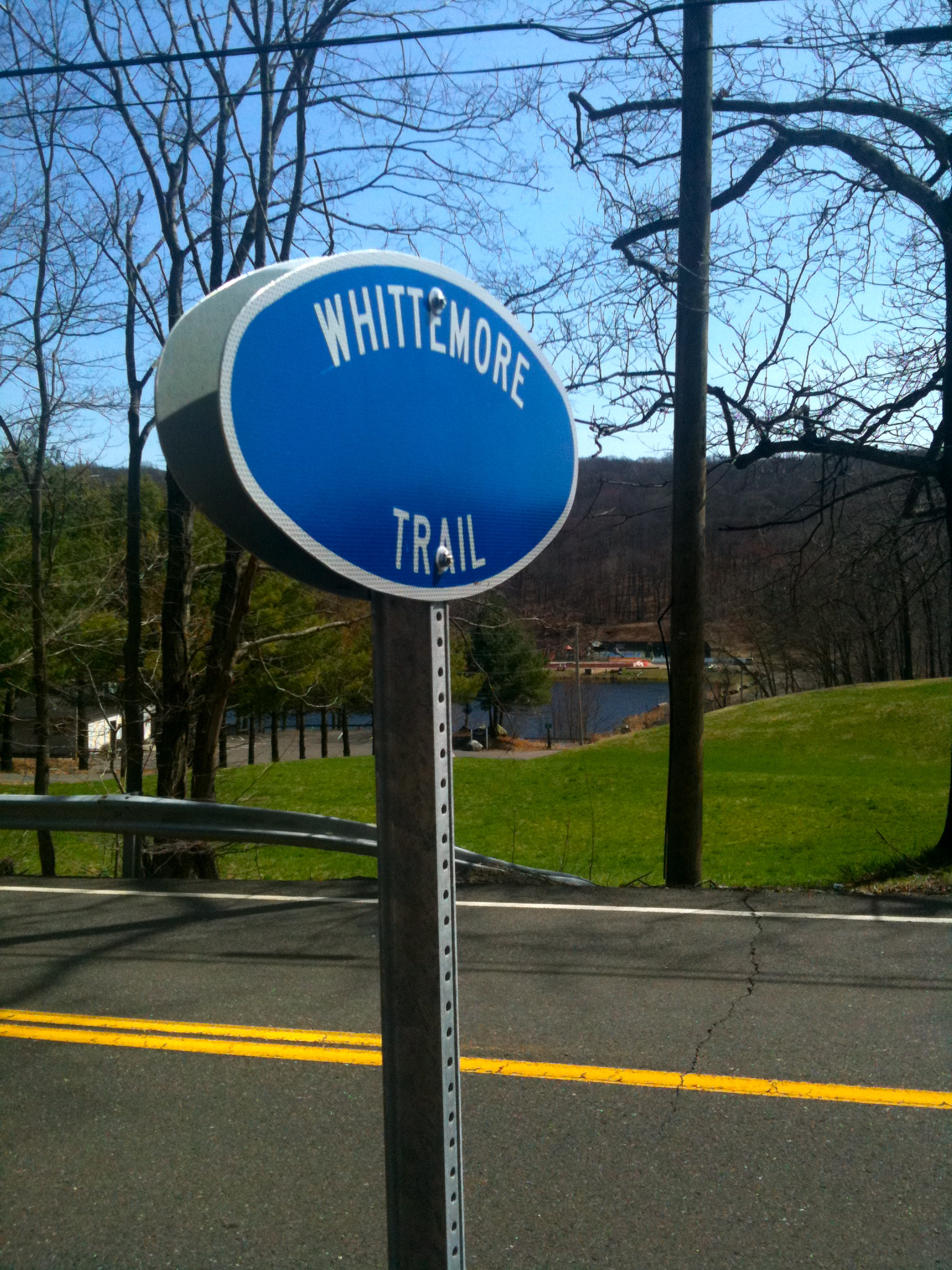 Whittemore side trail of Naugatuck Blue-Blazed hiking trail. Blazed Blue-White. Town of Bethany West recreation area is in the background (across the street).